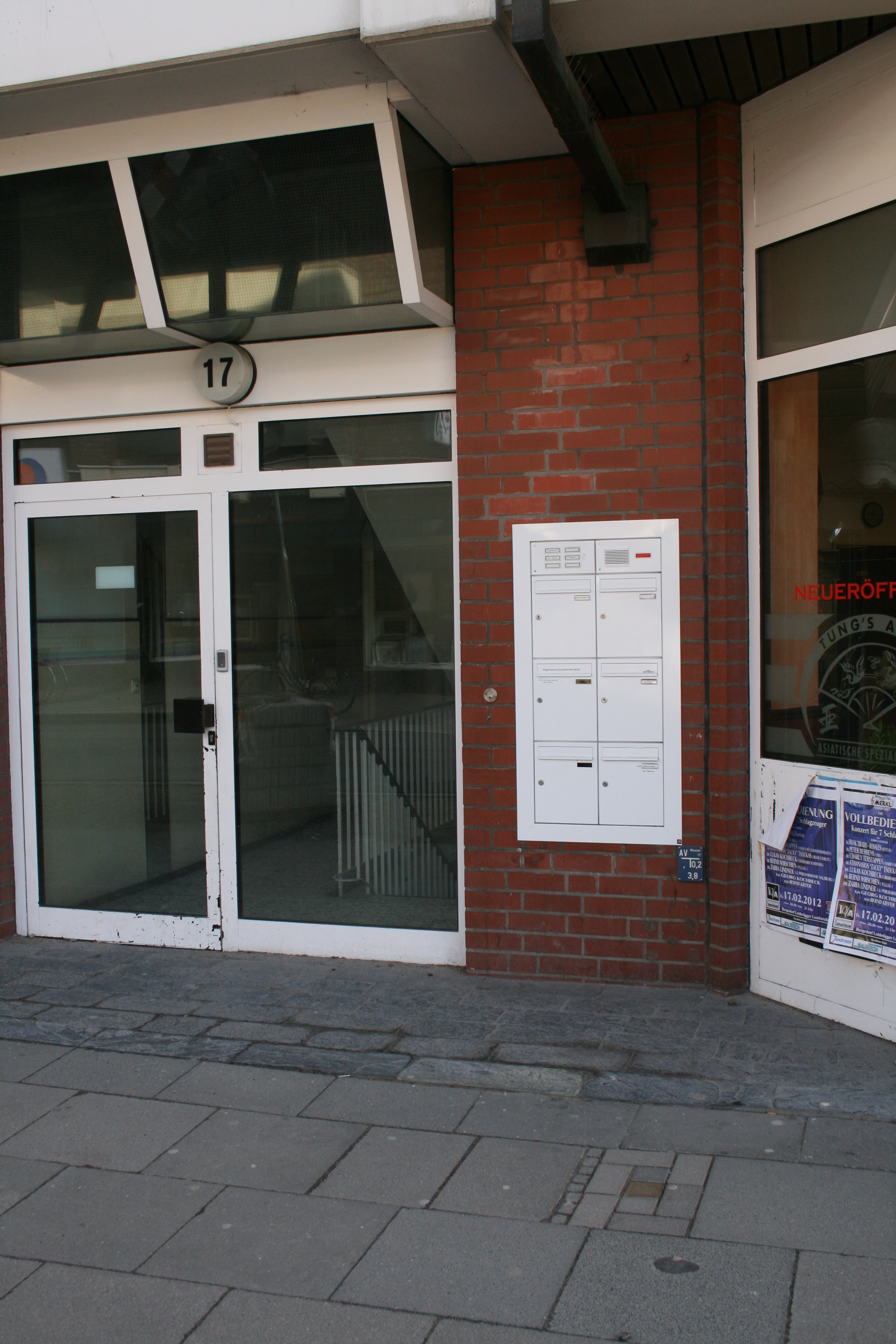 Entrance of Weidenbaumsweg 17 with the Stolperstein for Max Armbruster